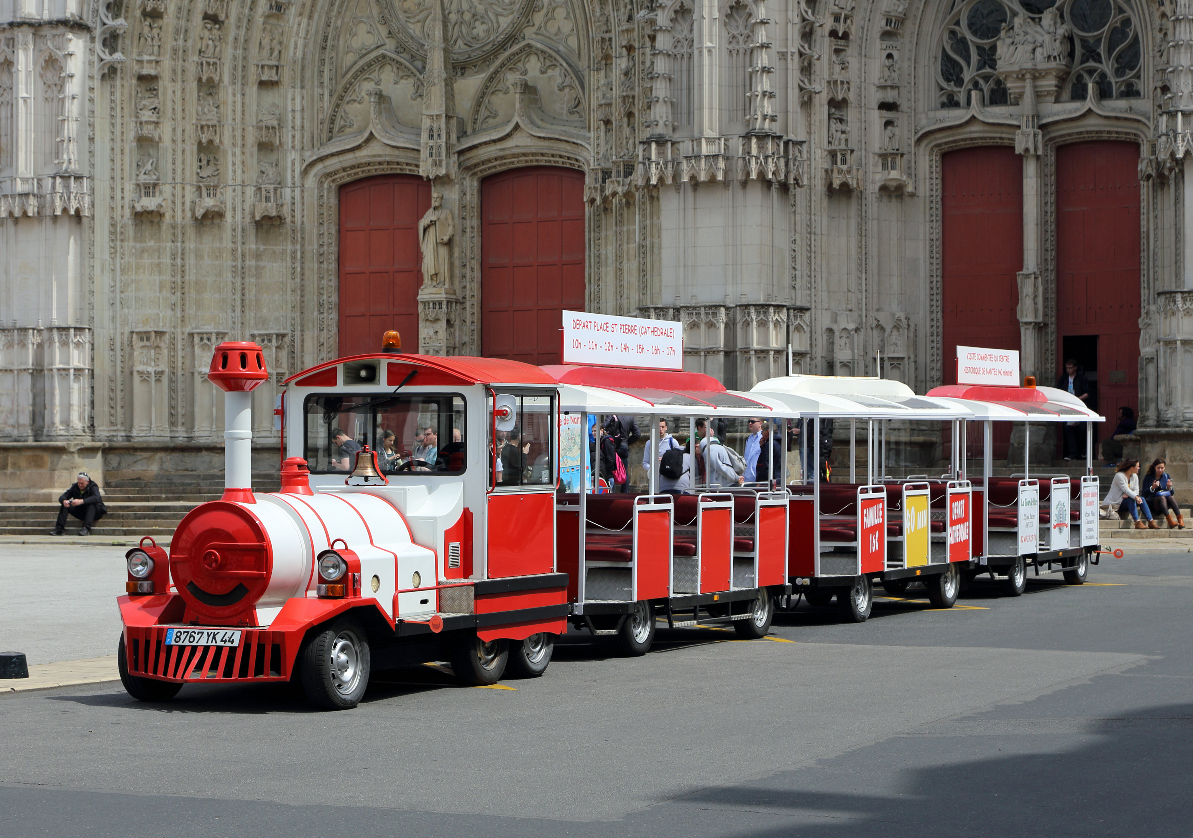 Nantes (France), Place Saint-Pierre: touristic road train